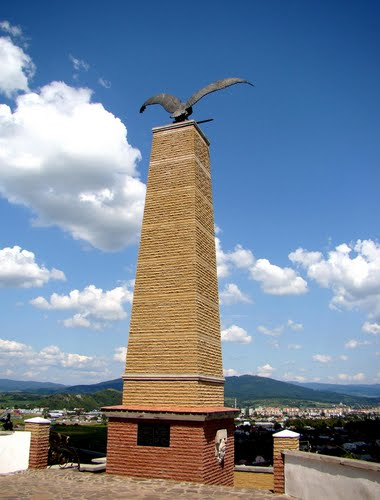 новий постамент